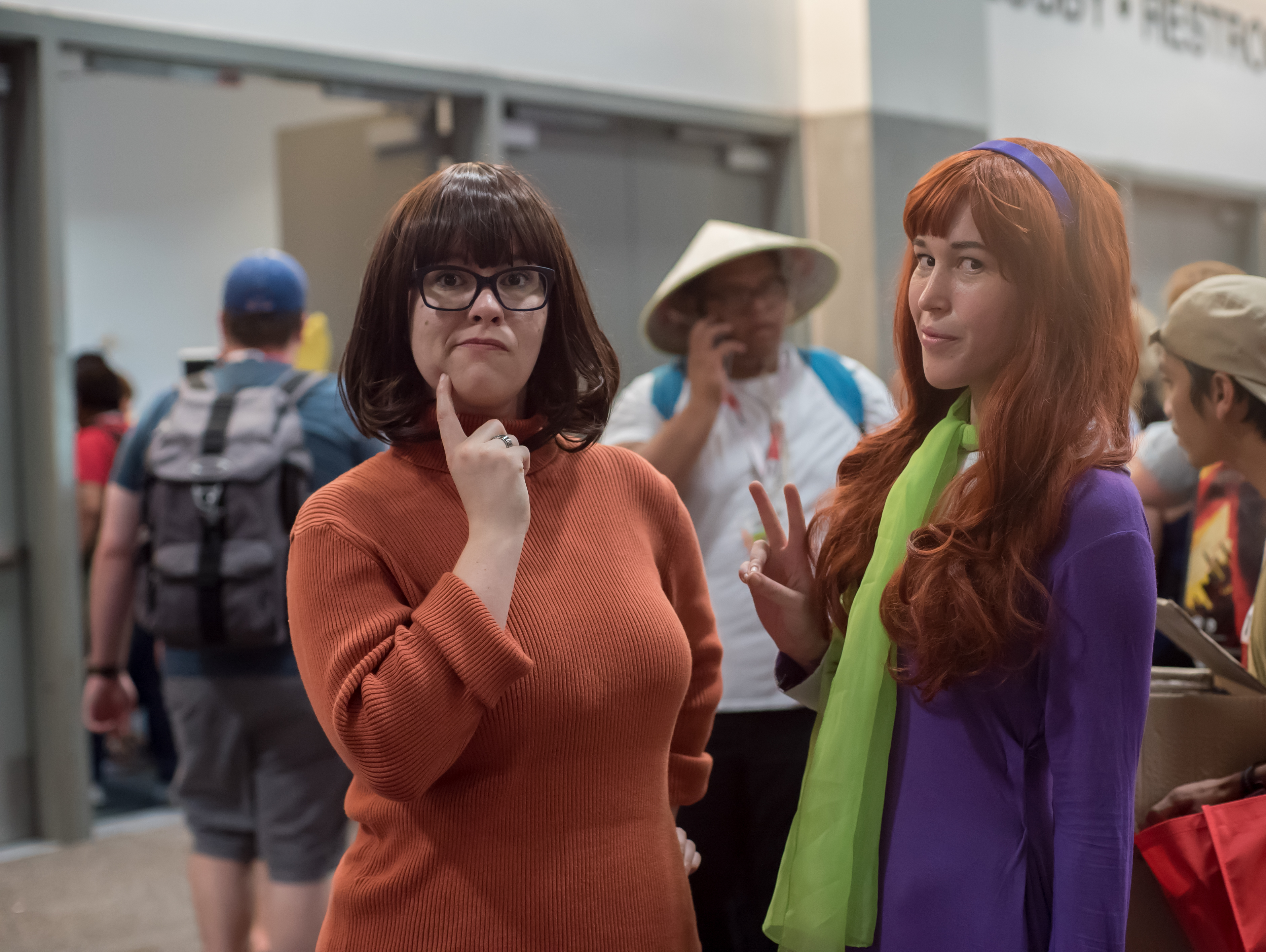 Daphne and Velma cosplay Cosplay at San Diego Comic Con 2015.